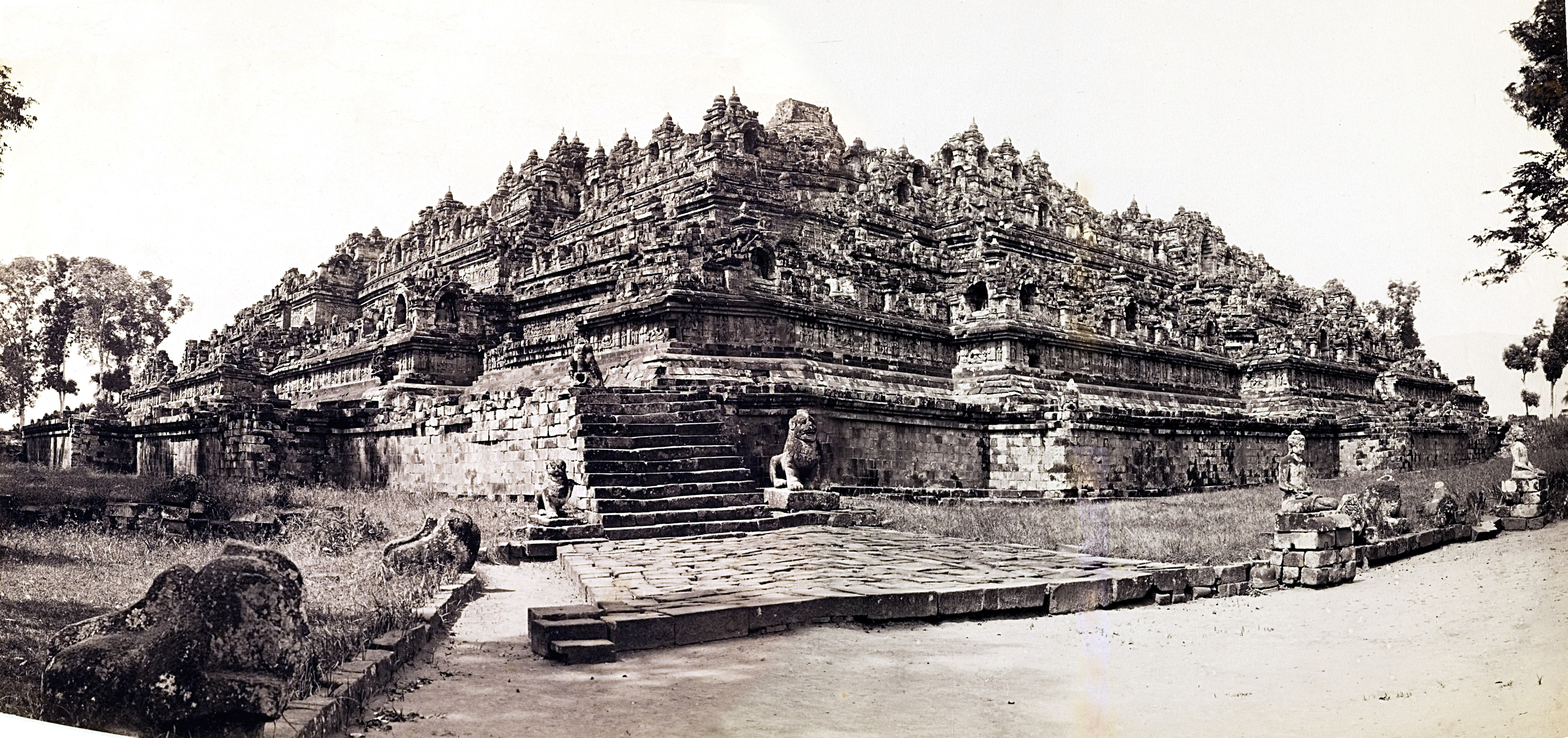 North West side of the Borobudur